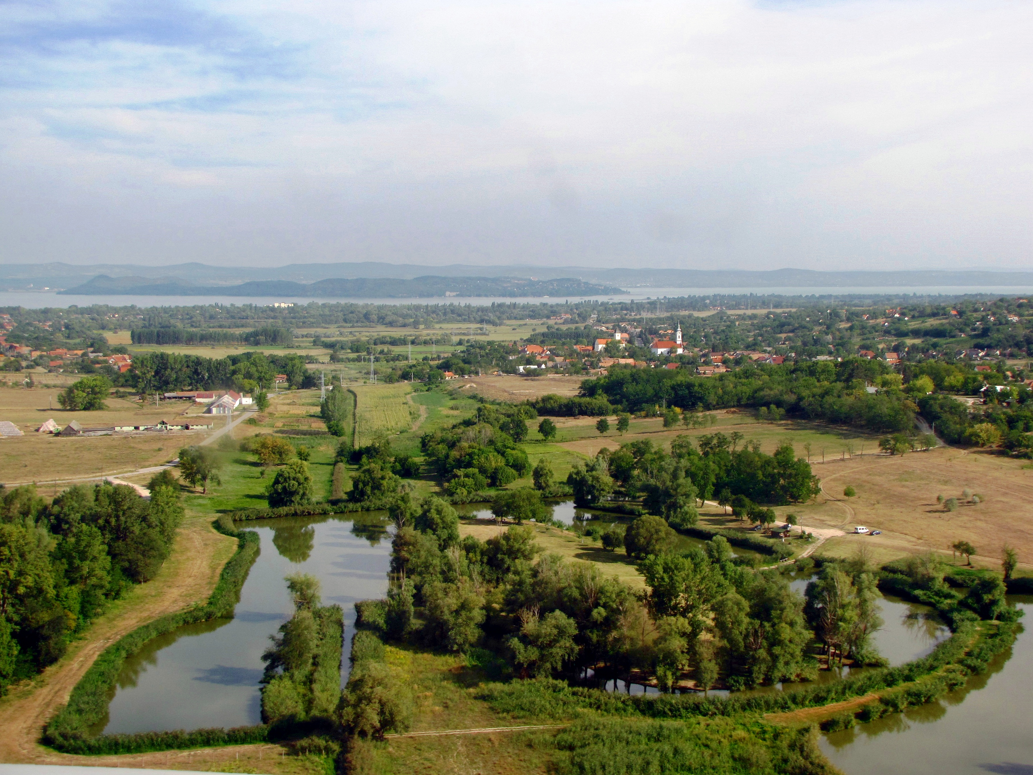 View from Kőröshegy viaduct, Kőröshegy angling pond/Séd stream reservoir